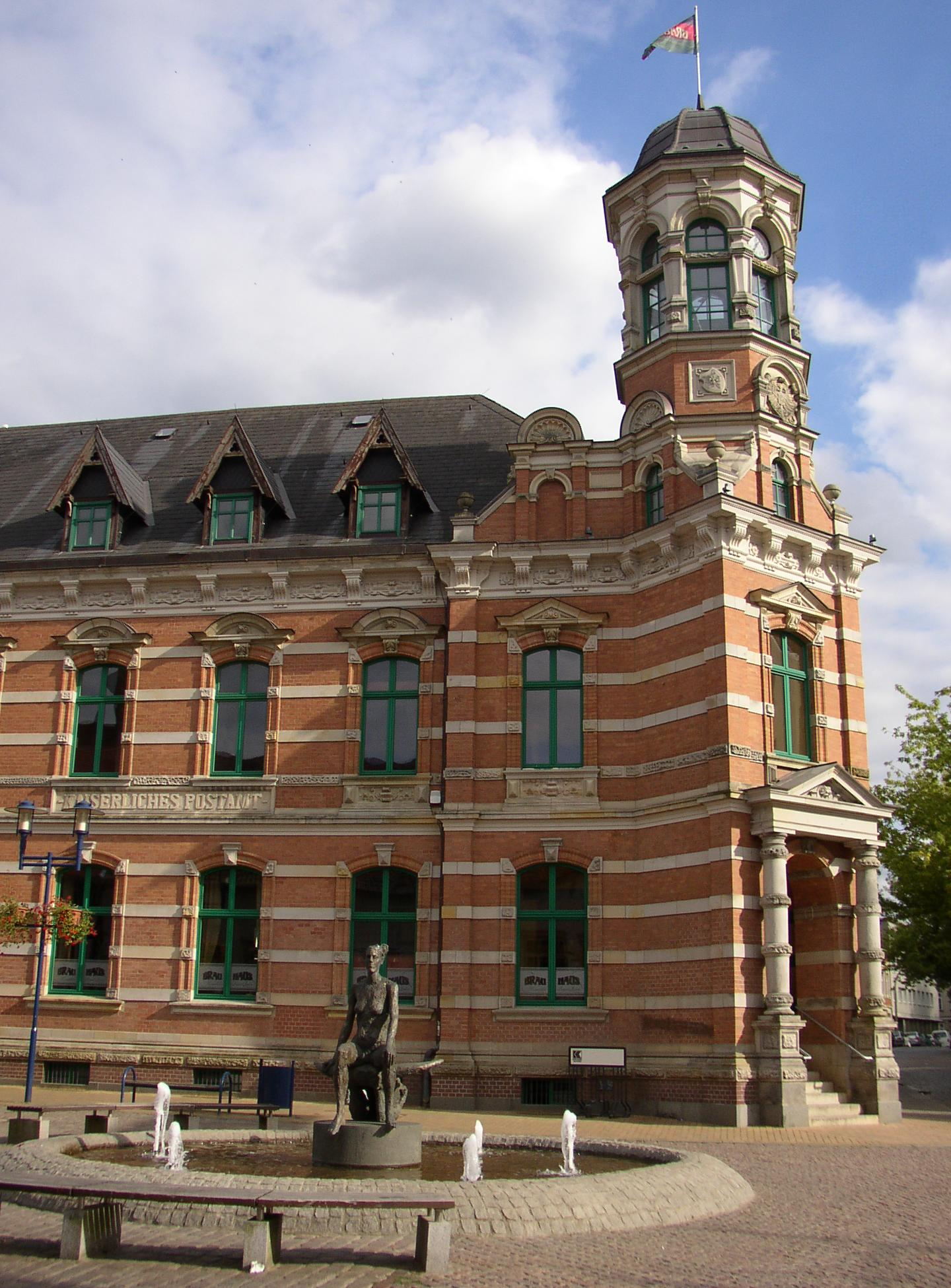 Former post office in Parchim in Mecklenburg-Western Pomerania, Germany